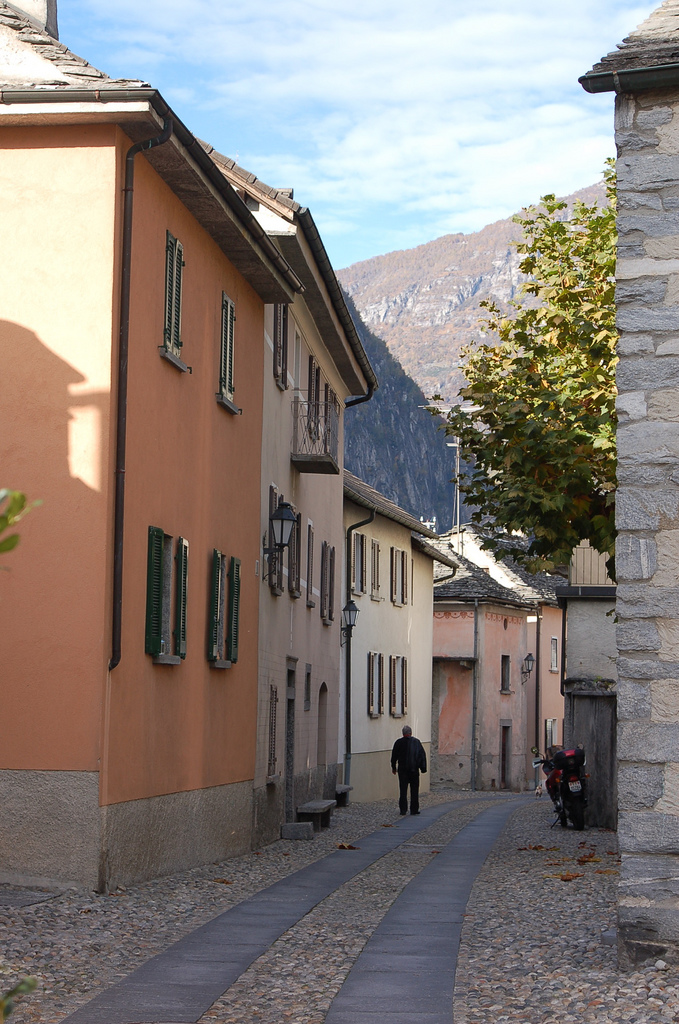 Avegno Chiesa, a little town outside of Gordevio was having some sort of little livestock/ petting zoo festival. Cars couldn't get past a little parking area they had for residents.